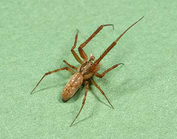 Male Octonoba grandiprojecta from Okinawa (Japan).